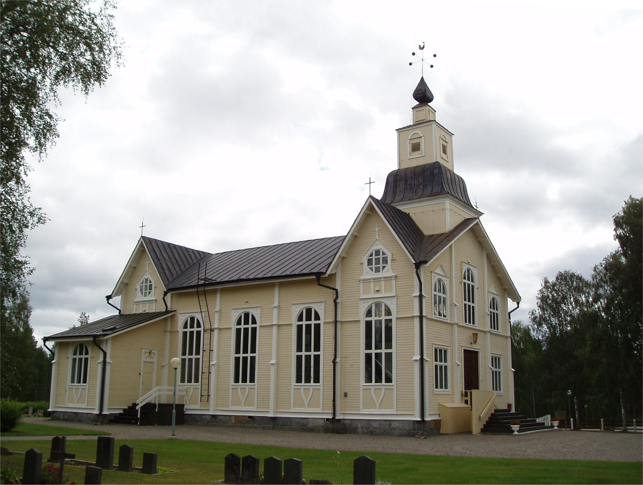 The church of Långträsk, Norrbotten, Sweden